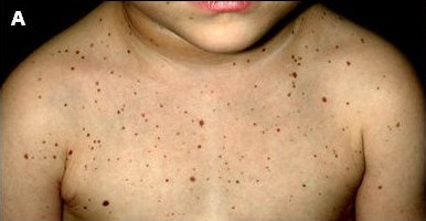 Numerous lentigines in the upper part of the trunk in a 2 year old child with a PTPN11 gene mutation.